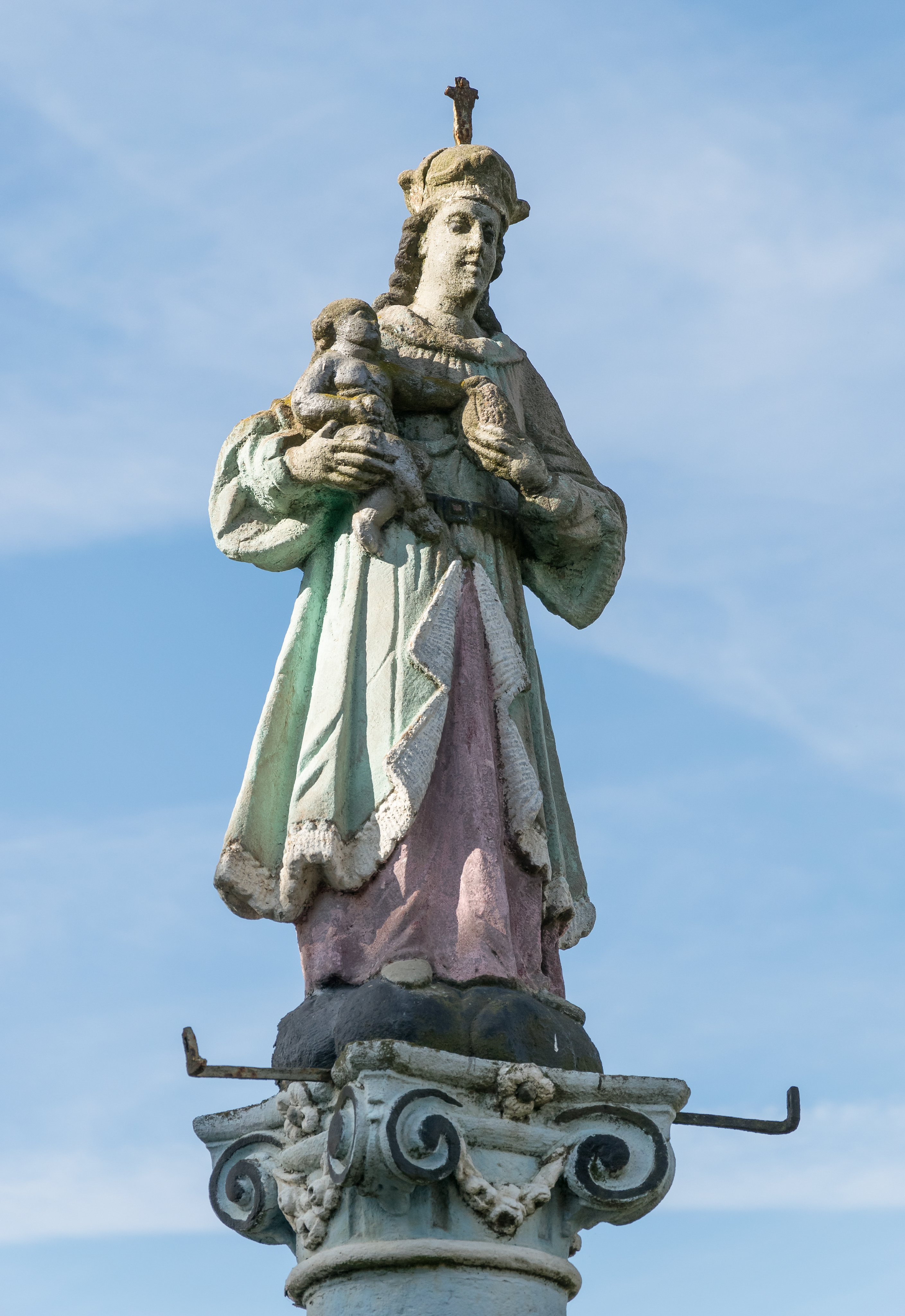 Maria column in Ruszowice